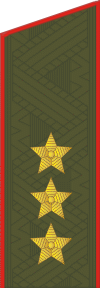 Rank insignia “Colonel general” (OF8) Ground forces/Army – cola strap basic uniform, Russian Armed Forces from 2010 - today).